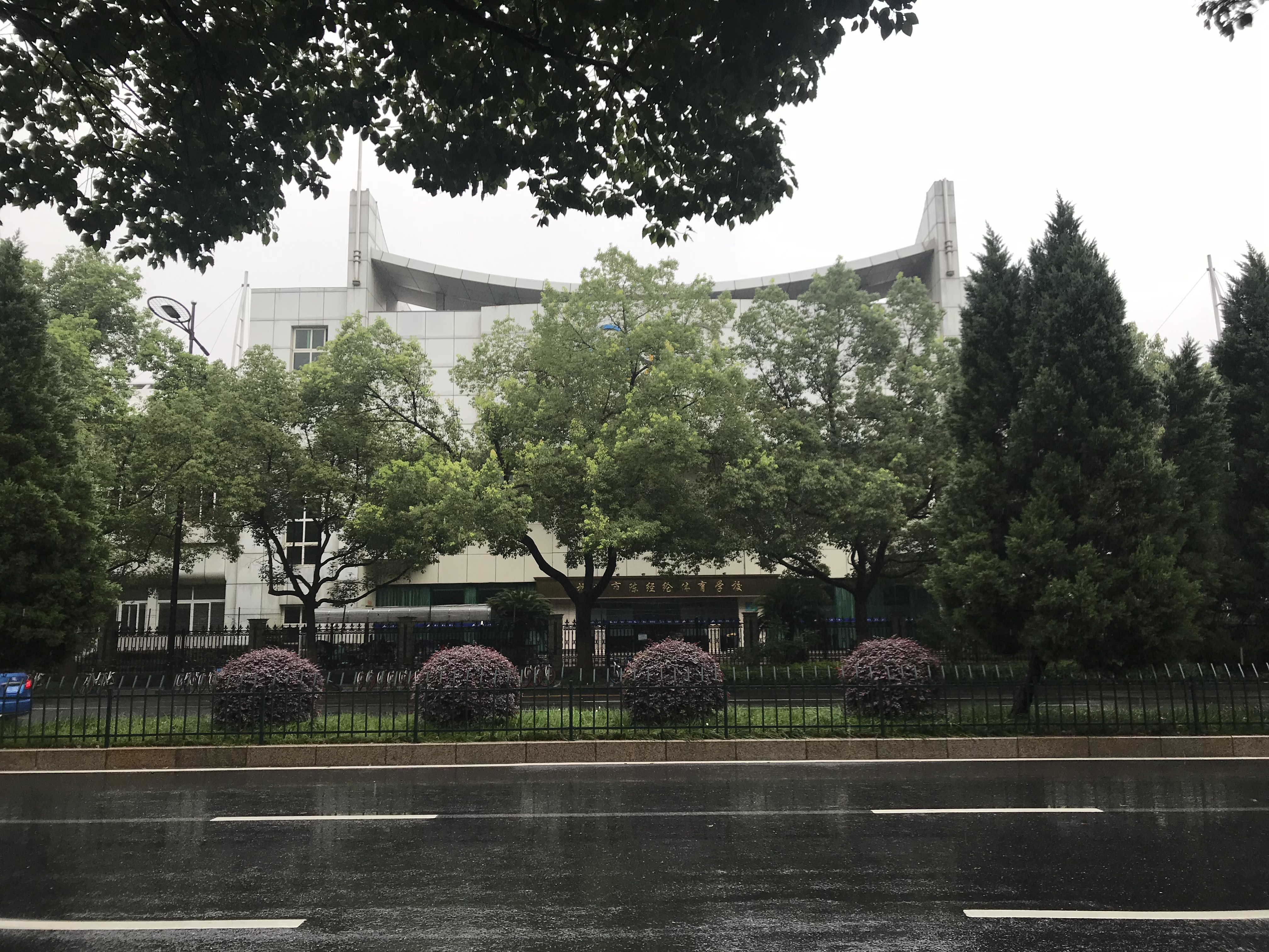 201907 Hangzhou Chenjinglun Sports School Side Gate